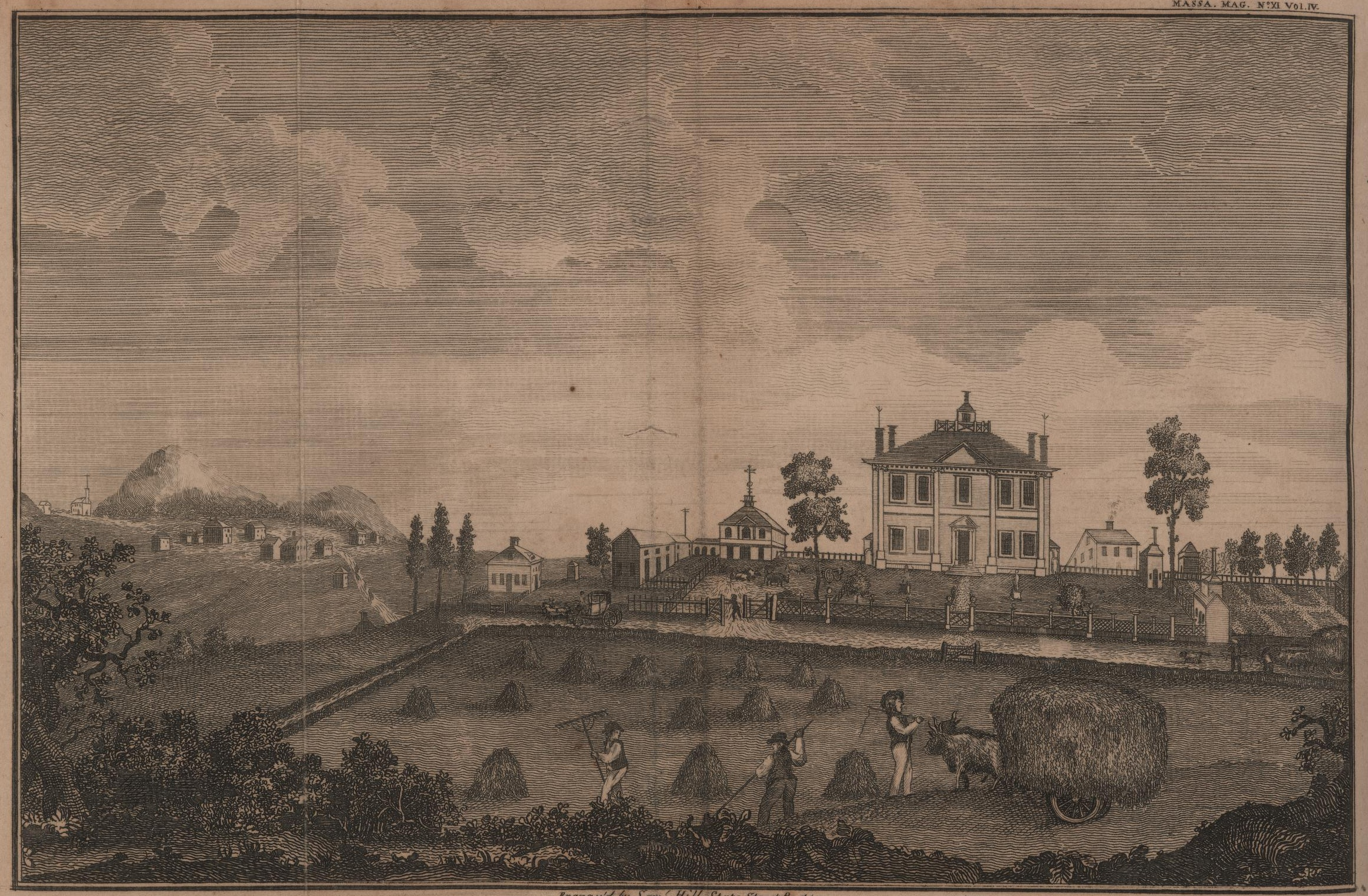 Engraving depicting the estate of Massachusetts politician and Acting Governor Moses Gill in Princeton, Massachusetts.